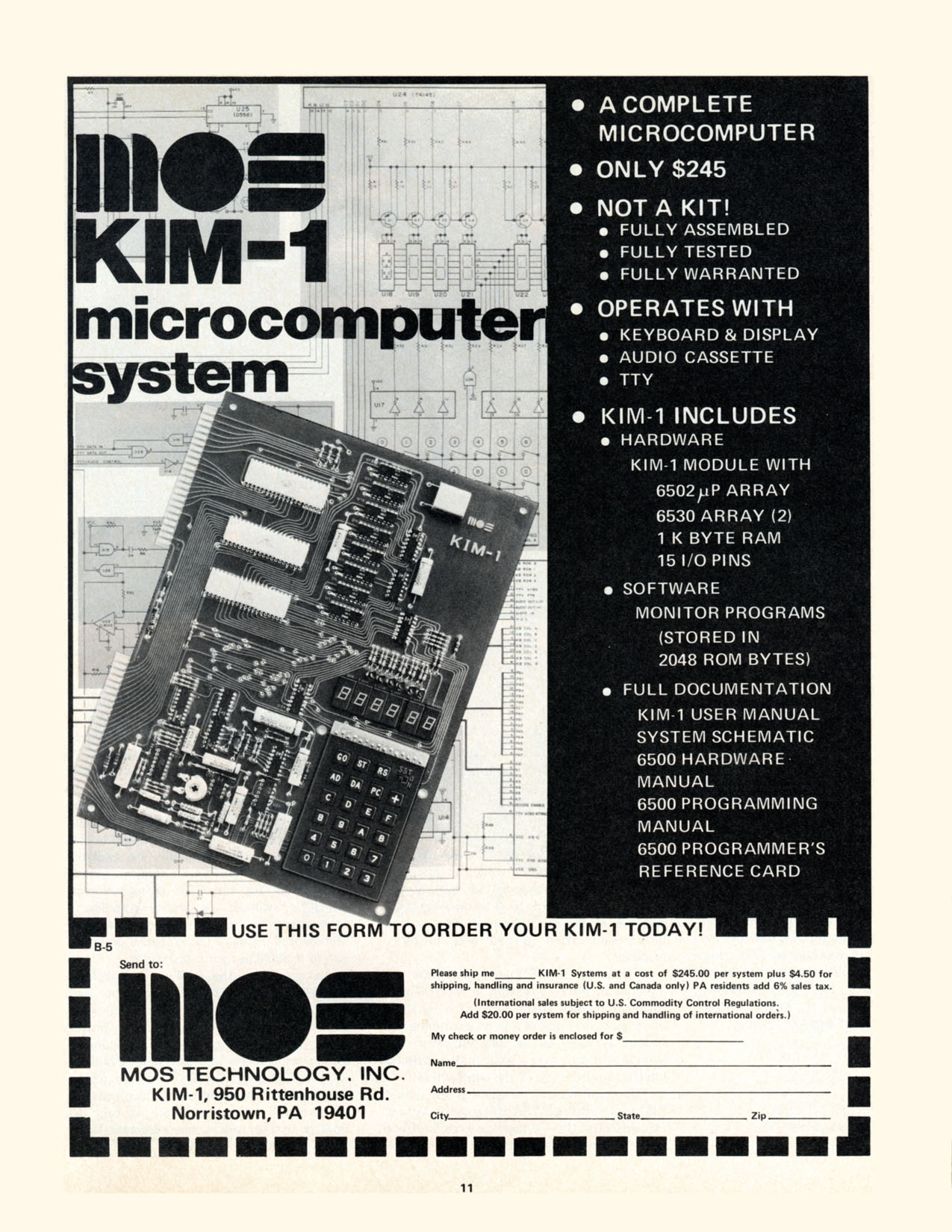 The introductory advertisement for the KIM-1 microcomputer. This appeared in the May 1976 issue of BYTE magazine along with a four page review of the KIM-1, "A Date with KIM" by Richard Simpson.